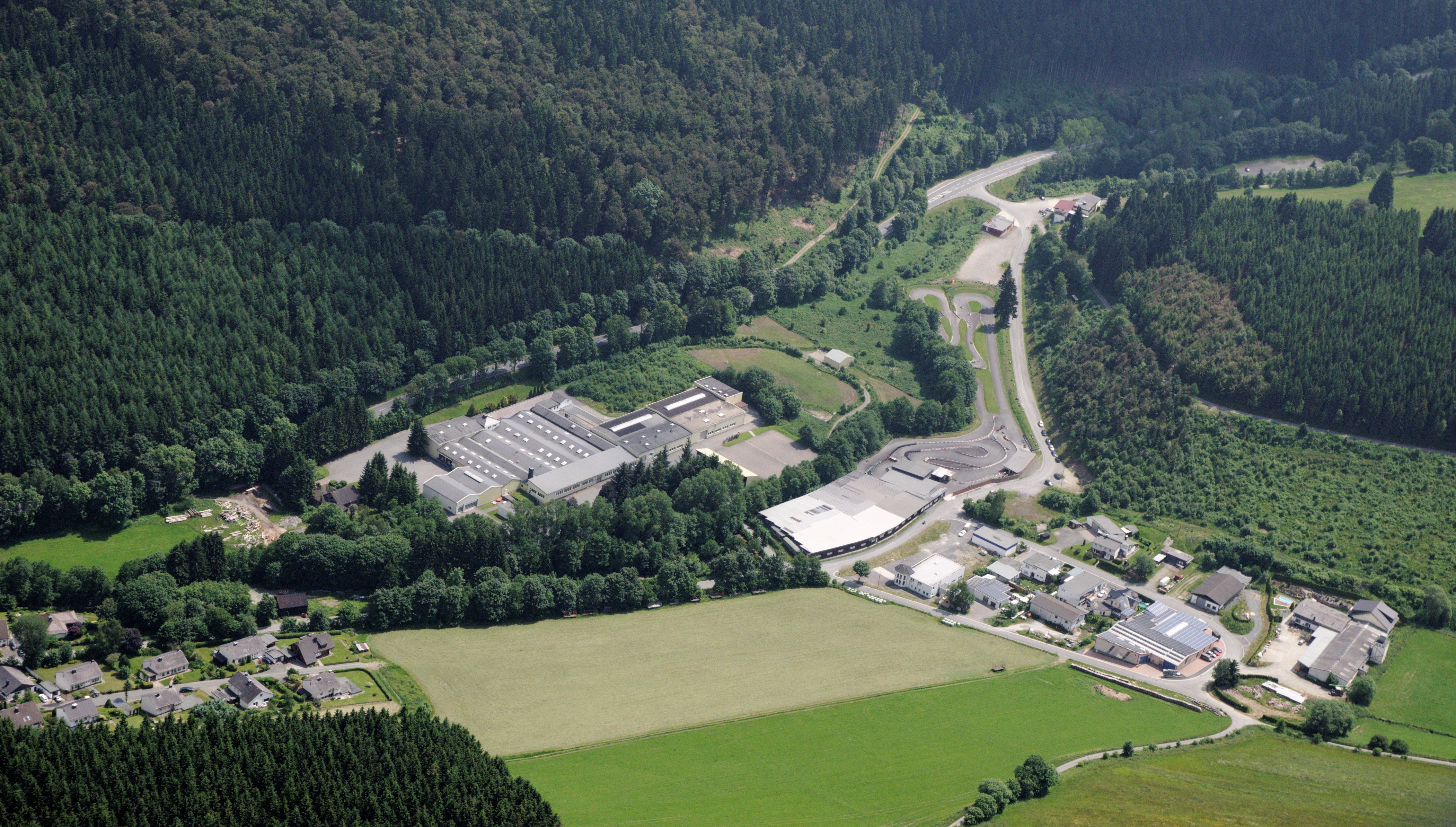 Fotoflug Sauerland-Ost: Ruhrtal; Gewerbegebiet in Niedersfeld mit Cartbahn und Firma Schuhl & Co. The making of this document was supported by the Community-Budget of Wikimedia Germany.